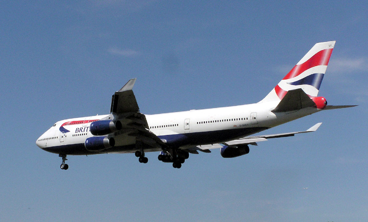 British Airways Boeing 747-400 (G-BNLV) landing at London (Heathrow) Airport.